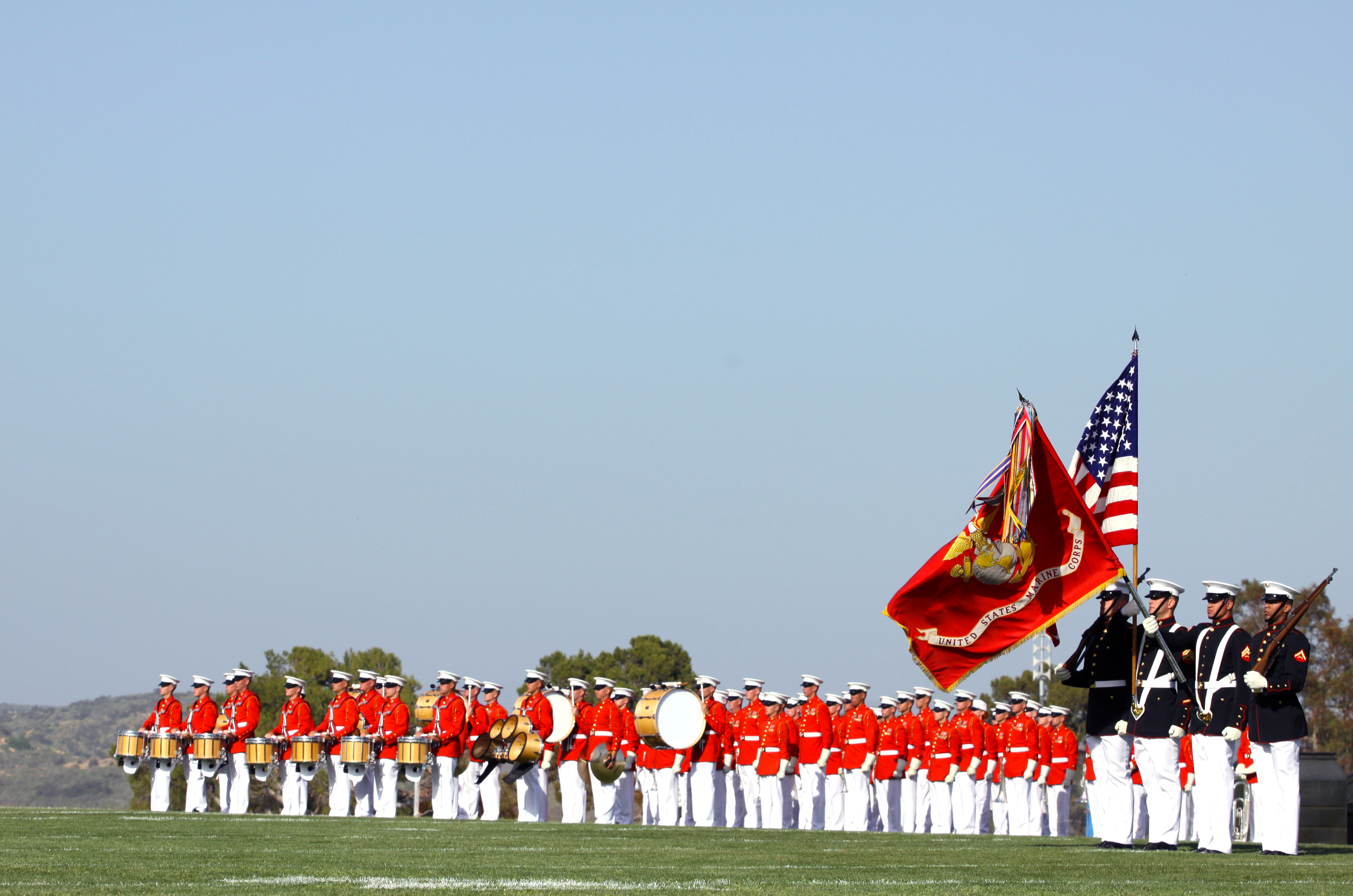 The U.S. Marine Corps Color Guard lowers the Corps’ official insignia during the annual Battle Color ceremony at Camp Pendleton, March 19. The ceremony dazzled thousands with performances from the Silent Drill Platoon and "The Commandant's Own" Drum and Bugle Corps, stationed at 8th & I, Marine Barracks Washington, the oldest active post in the Corps.